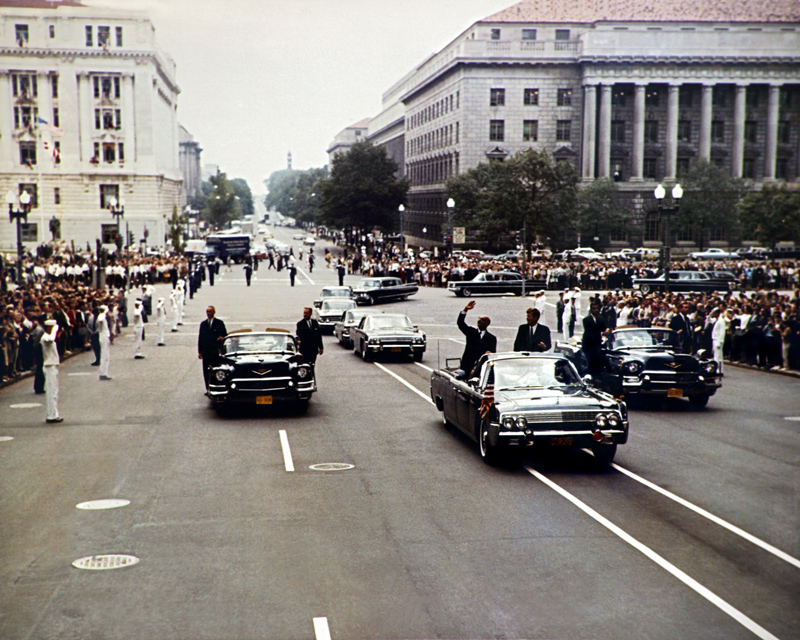 The King's visit to the U.S. capital in September 1963 was received with great enthusiasm. Afghan flags and banners welcomed the Monarch as he and John F. Kennedy rode through the city in the President's limousine. The King and Queen's schedule included appearances at the Islamic Center, the Freer Gallery of Art, and Arlington National Cemetery. Courtesy of the National Archives of Afghanistan, Ministry of Information and Culture.